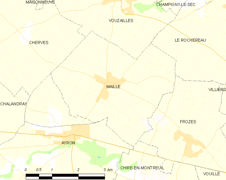 Map of French municipality Maillé